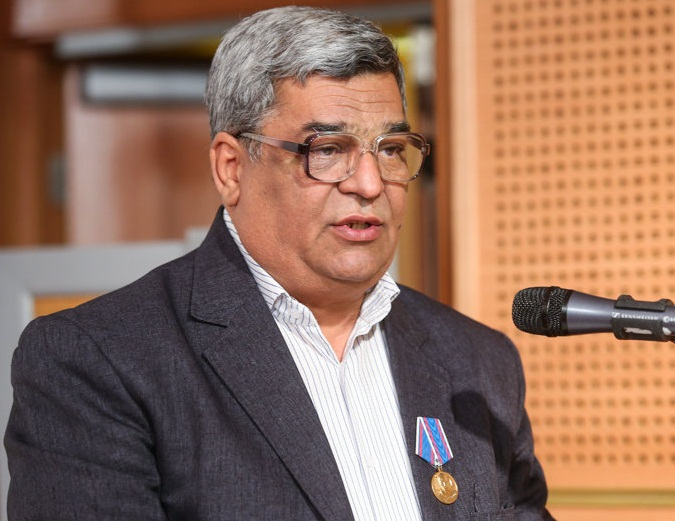 cyrus borzoo